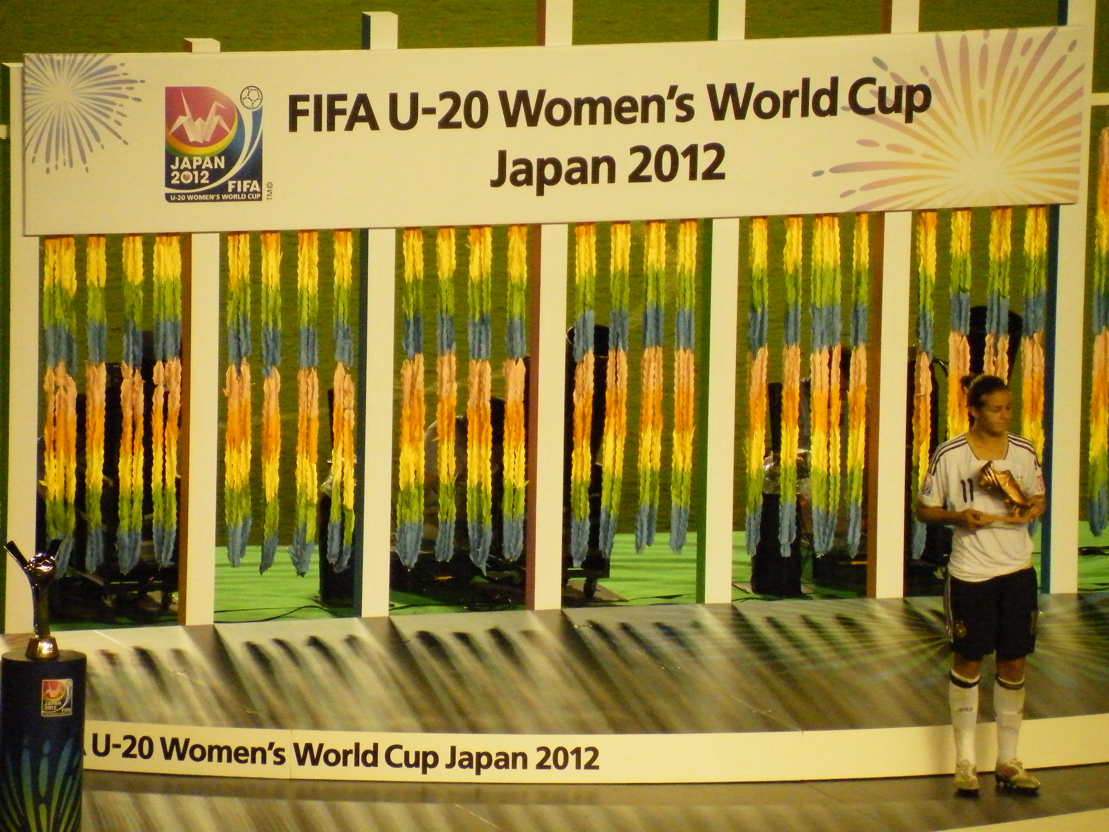 FIFA U-20 Women's World Cup 2012 Awards Ceremony